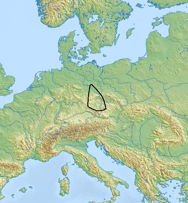 Map of the Baalberge group, based on a map printed at page 41 in Encyclopedia of Indo-European Culture, which was edited by J. P. Mallory and Douglas Q. Adams, and published by Taylor & Francis in 1997.